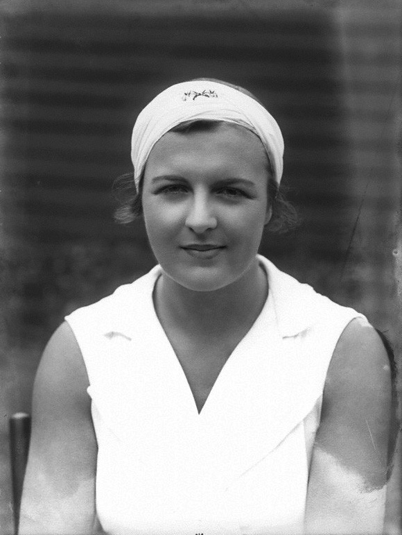 English tennis player Betty Nuthall by Bassano, whole-plate glass negative, 9 May 1932